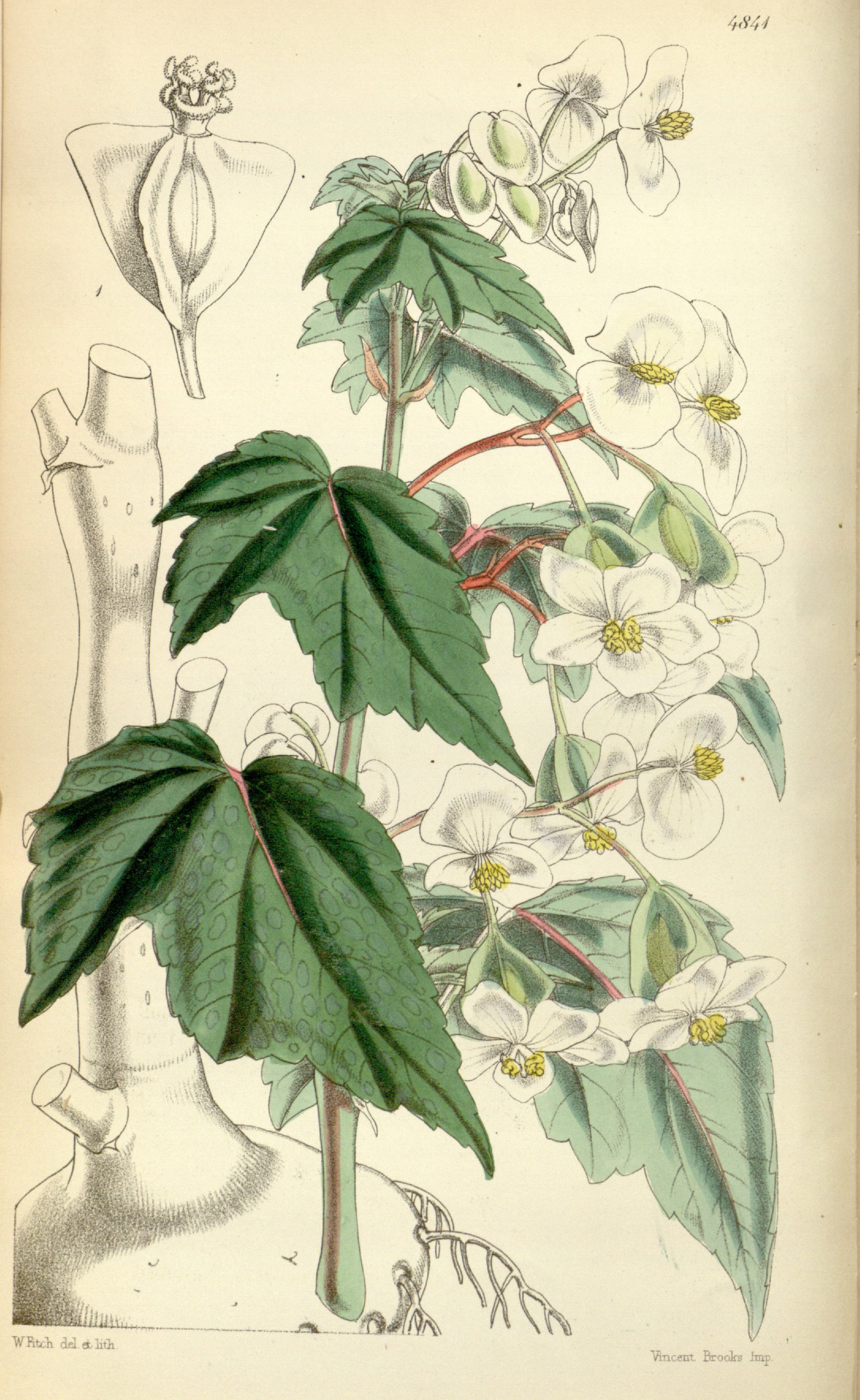 Begonia dregei as Begonia natalensis Hooker, Bot. Mag. 81: t. 4841 (1855).